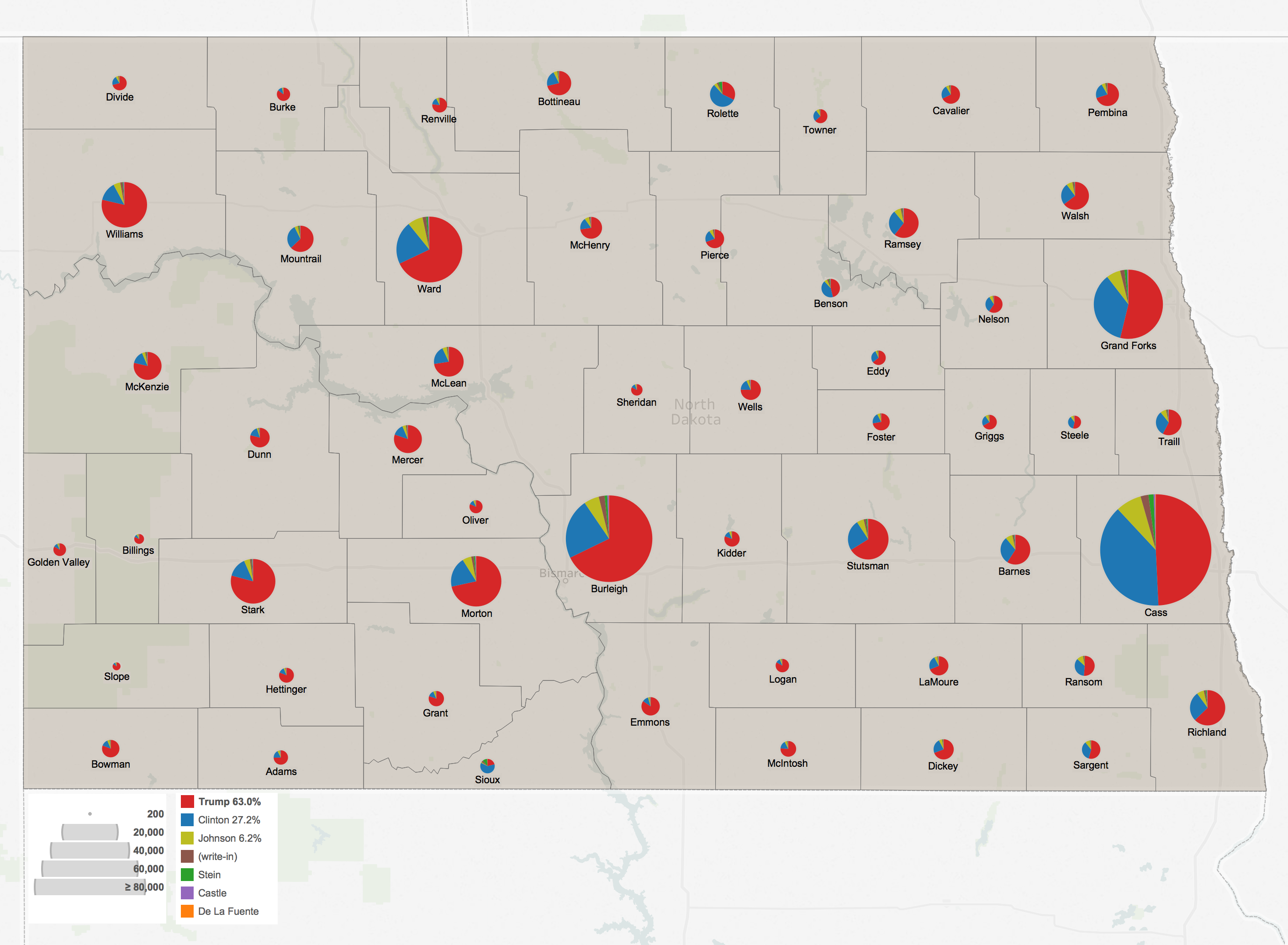 United States presidential election in North Dakota, 2016 results by county showing number of votes by size and candidates by color. Source Official Results General Election - November 8, 2016, North Dakota Secretary of State. CountyTrumpClintonJohnson(write-in)SteinCastleDe La FuenteCass39,81631,3616,0851,8521,20939999Burleigh32,53210,8812,7221,05248026349Grand Forks16,34010,8512,00461238313837Ward18,6365,8062,05549624215225Morton11,3363,0809142631418216Williams10,0691,73563121974745Stark9,7551,75352615860637Stutsman6,7182,4985741881095513Richland4,7672,064493123765415Barnes3,1601,5974078647416McLean3,8601,0812565729248Ramsey3,2171,5054058644435Mercer3,7596211906621214McKenzie3,6706981726635283Walsh2,9951,1673308832231Mountrail2,5821,2201665456244Traill2,2651,2412926235362Rolette1,2172,09915683175178Bottineau2,4947361774330113Pembina2,2086811675528122McHenry2,0504901894820194Dickey1,6675541231923156Wells1,7964191012814232Ransom1,210838247372241Dunn1,771358602414151LaMoure1,4815021092613164Pierce1,437431132479141Benson9298421126941171Cavalier1,357476110351972Sargent1,088694167171867Emmons1,67721552171091Bowman1,44622779161342Foster1,24134796151091Nelson1,025536114221190McIntosh1,100235711610122Grant1,1081856510760Kidder1,1111796412721Hettinger1,0501684617591Renville9932017119450Griggs8472989318612Sioux260758255212854Eddy79135553101561Divide8672457122923Adams9092166578130Towner7333059019730Logan8881143814562Burke895119264530Oliver8301194711352Steele5383617512670Golden Valley796994011470Sheridan65095296160Billings49559337461Slope36243191320Date15 December 2016SourceOwn workAuthorDennis Bratland Licensing[edit]